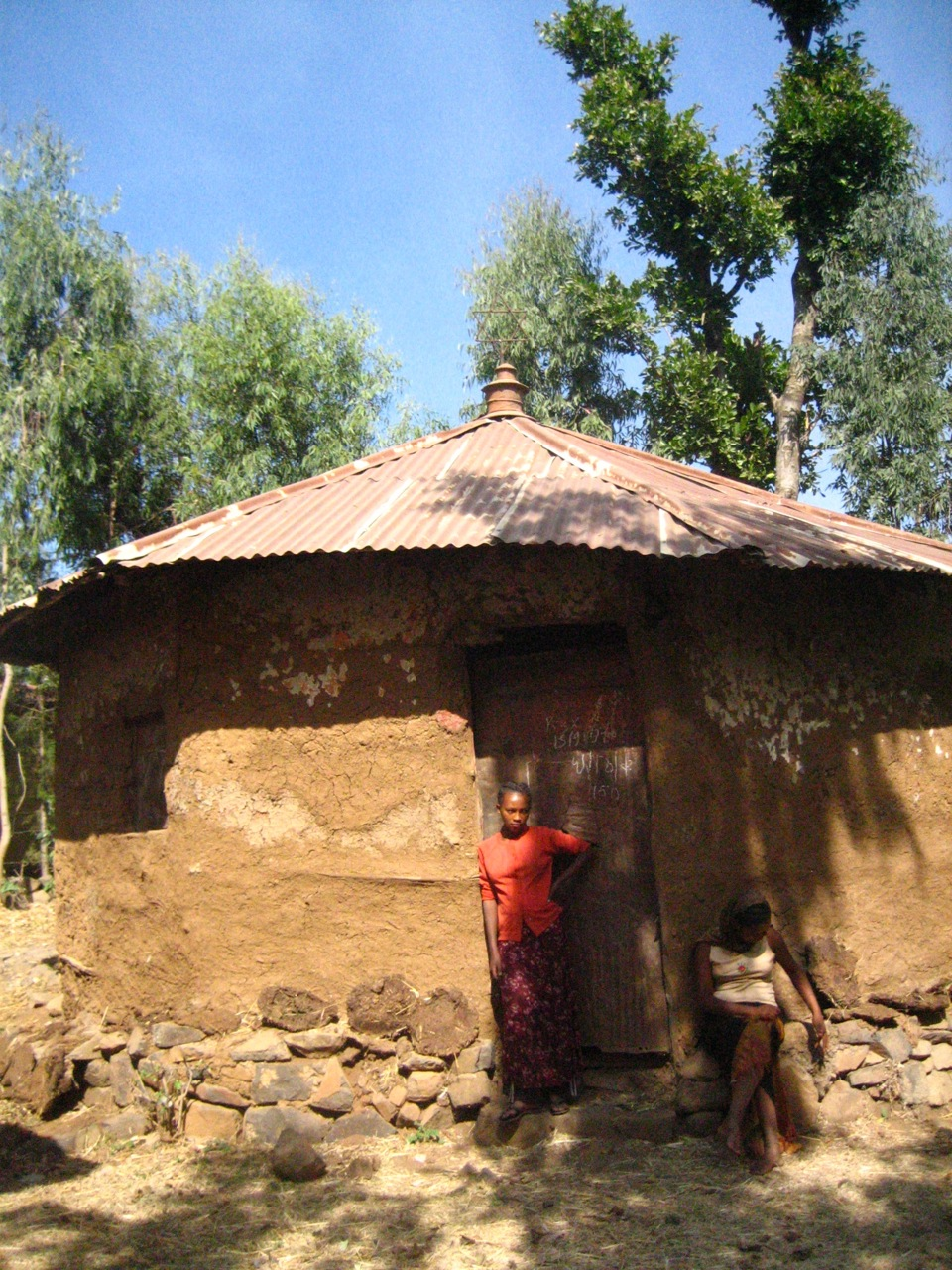 This is the synagogue in the former village of the Beit Israel - the Ethiopian Jews, most of whom were airlifted to Israel in 1991. There are still some left, but none in this part of the country, and the village serves as a tourist trap for Jewish and Israeli travelers. Interesting in a historical sense.